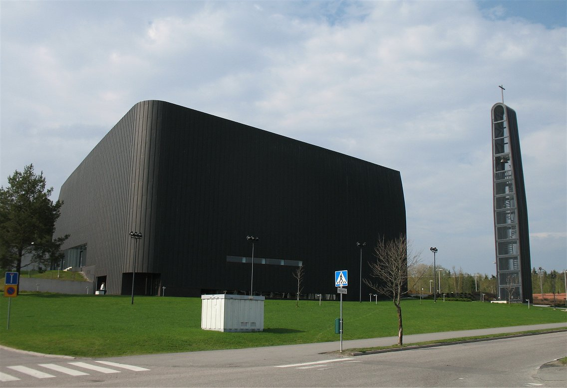 Lutheran Klaukkala Church located in Ylitilantie 6, Nurmijärvi, Finland. This church was built in 2003–2004.